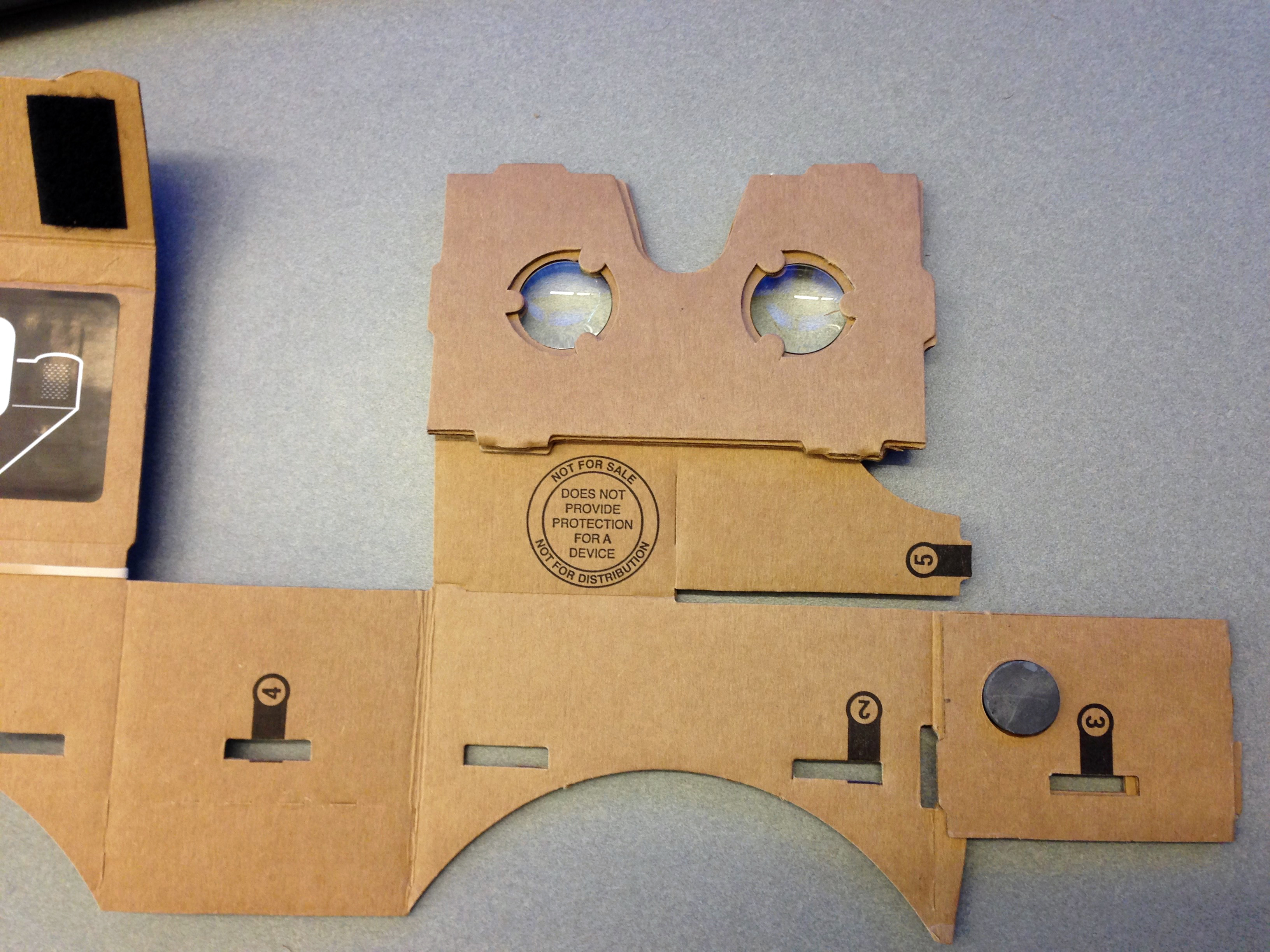 Unpacking Google Cardboard from its original folded-up package.